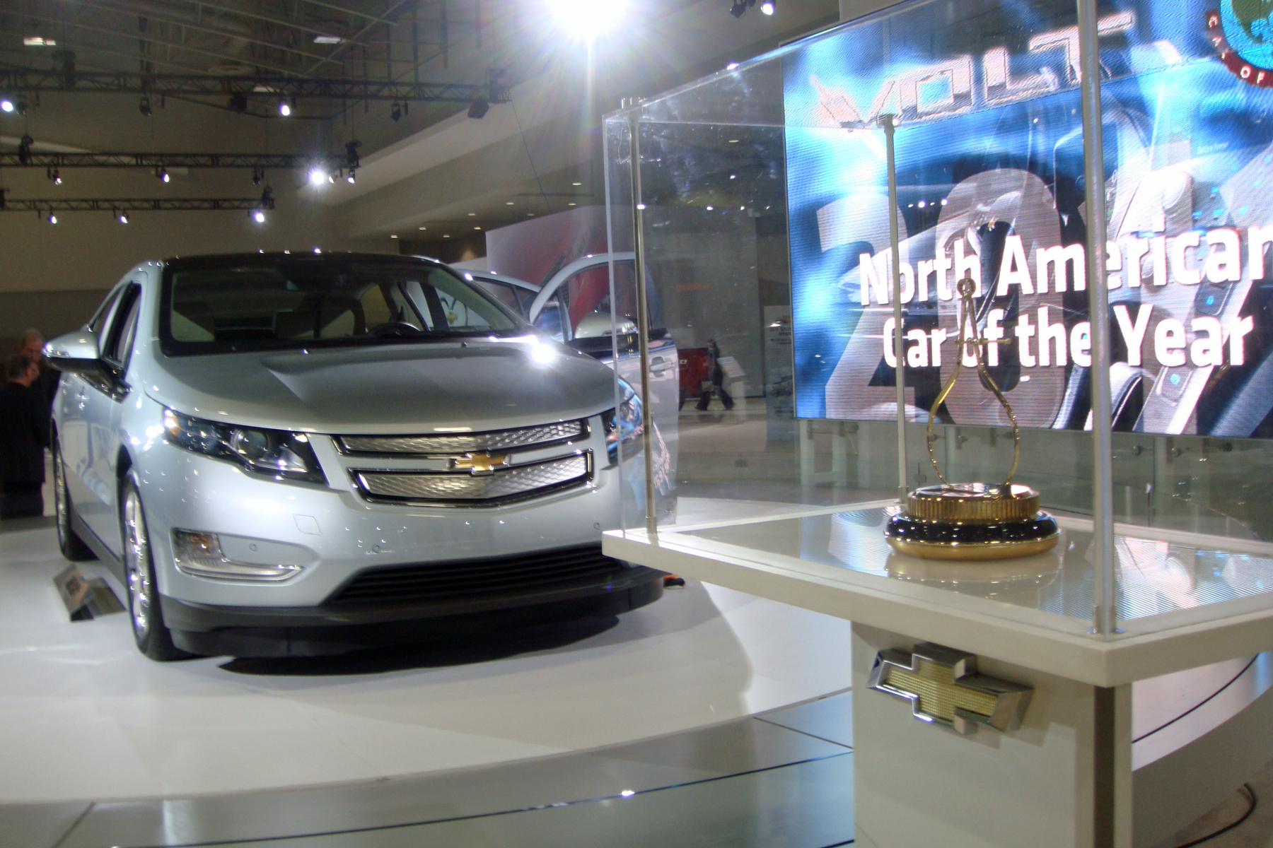 2011 Motor Trend Car of the Year award exhibited at the 2011 Washington D.C. Auto Show. Award was won by the 2011 Chevrolet Volt (shown in the background).